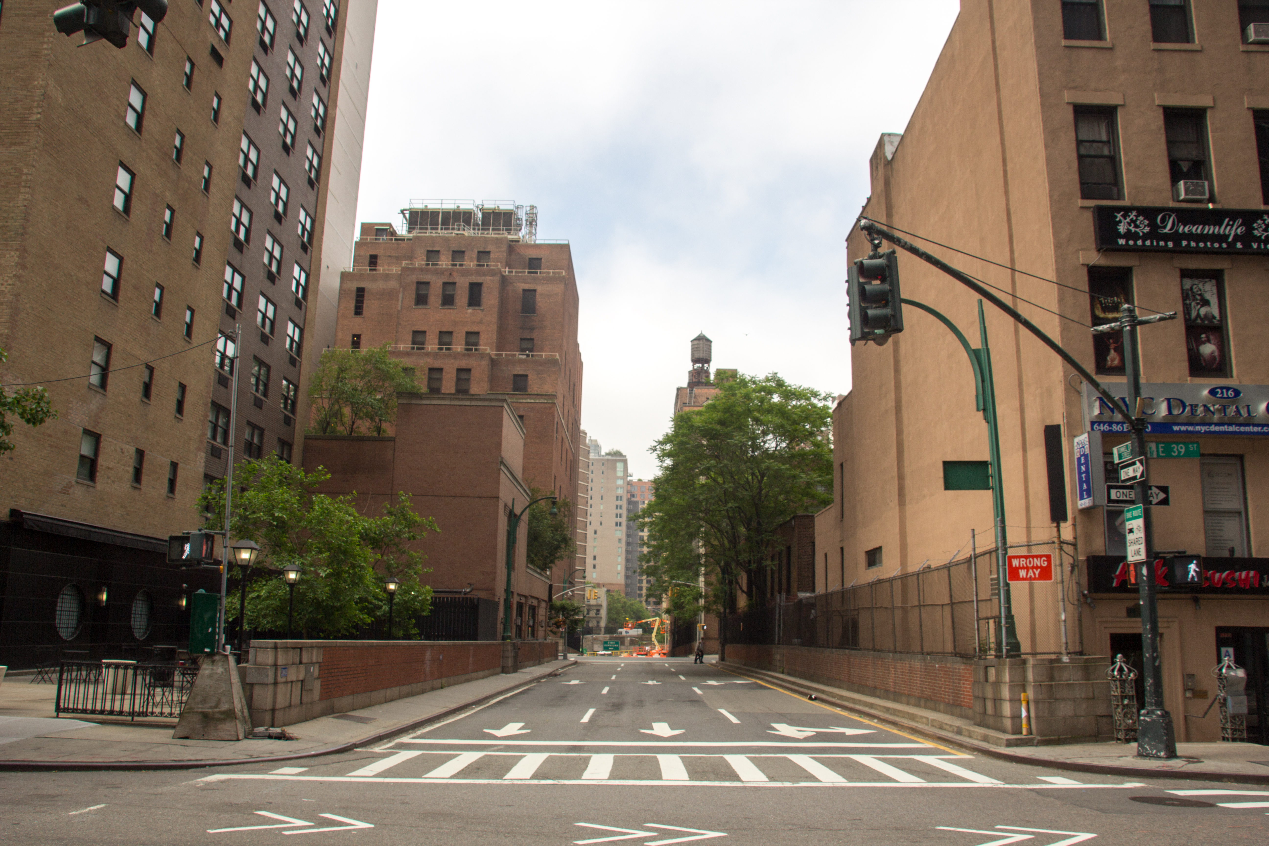 Manhatten, New York City